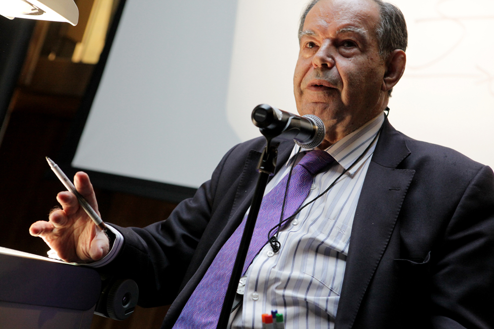 Edward de Bono lecture at The Hub Kings Cross.